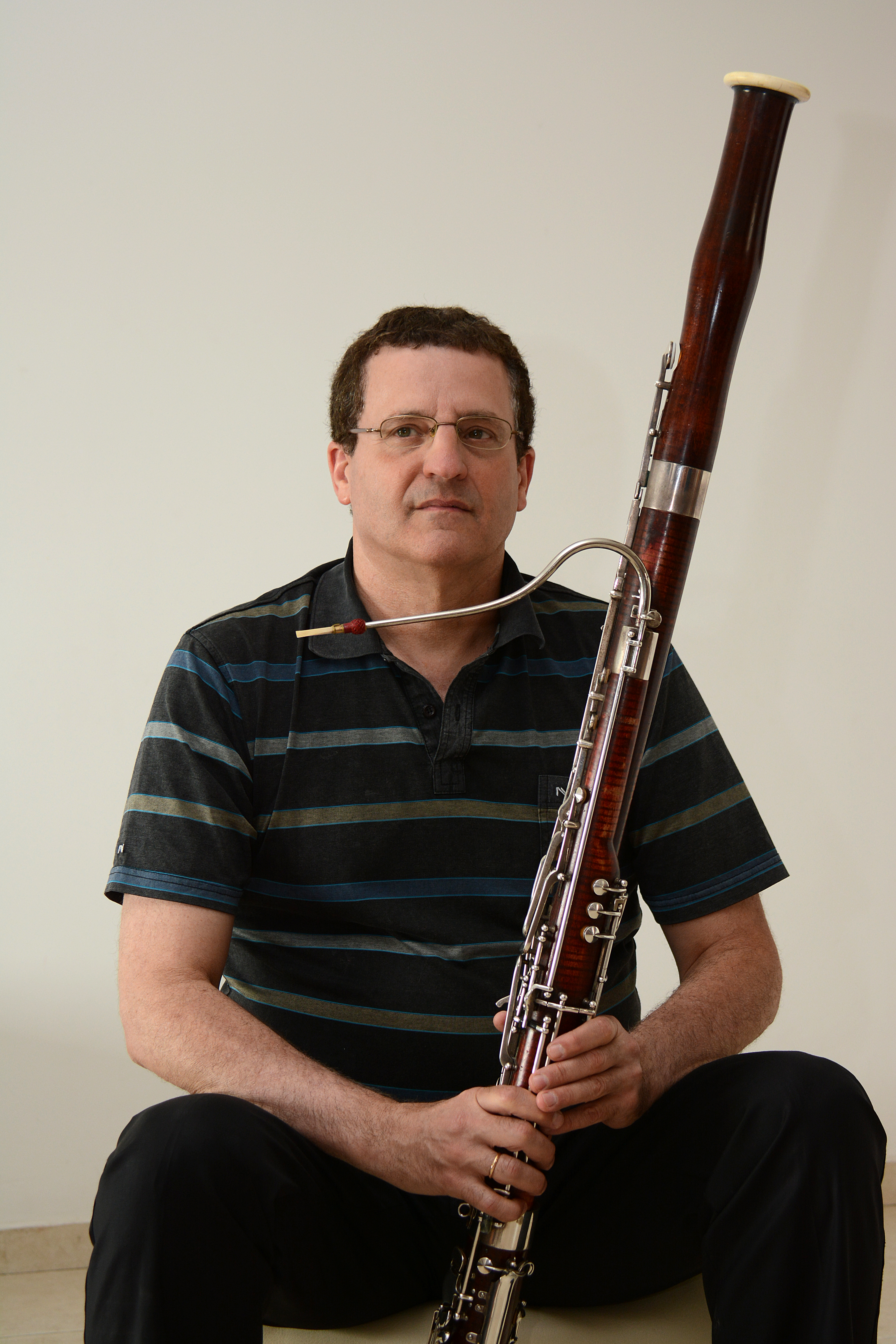 Picture of basoonist Uzi Shalev